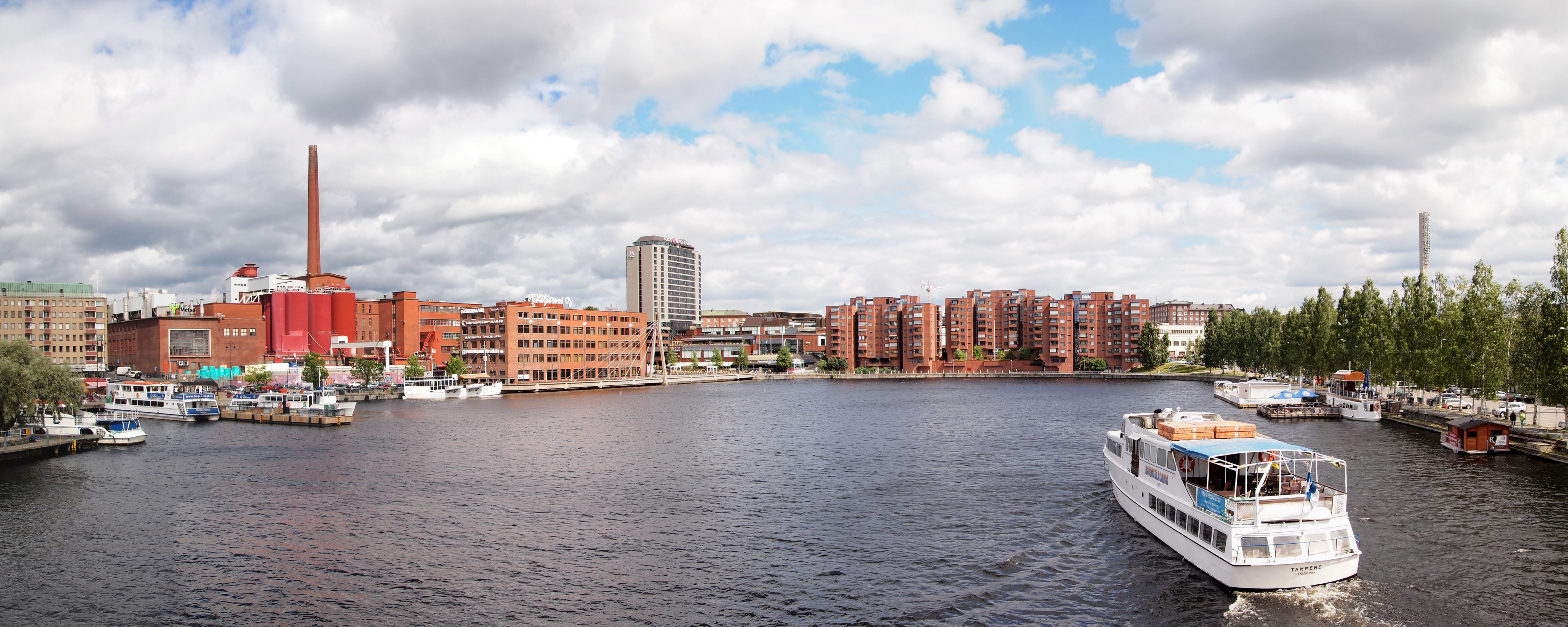 Boat on the river Tammerkoski in Tampere. View from the bridge Laukonsilta.